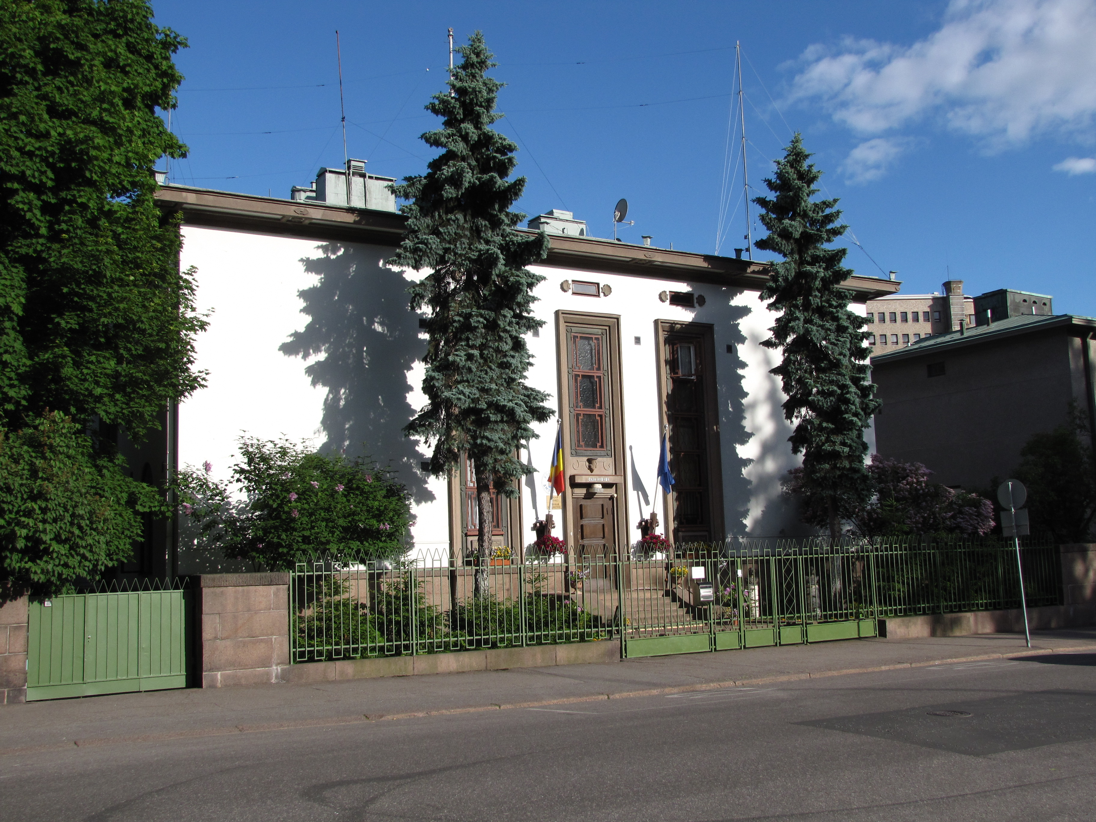 Embassy of Romania in Helsinki, Finland. Address Stenbäckinkatu 24.